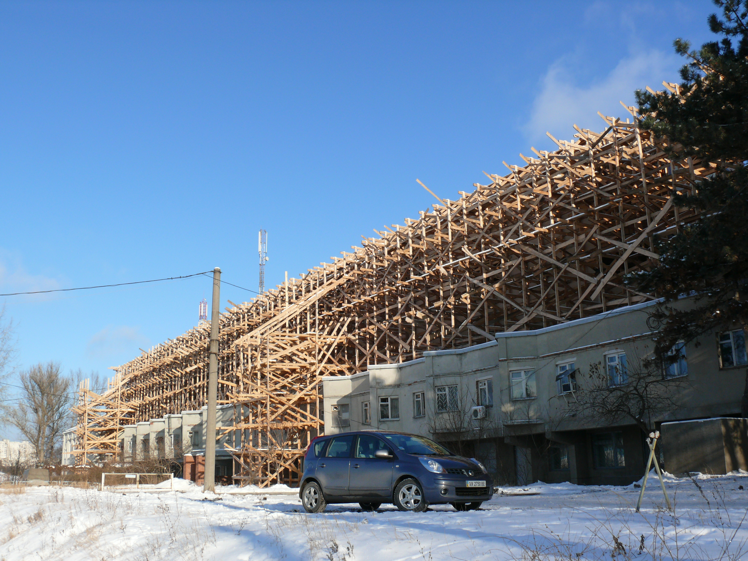 Dinamovskaya Street, 5. Dinamo Bass in Kharkov. Russian "Dau" Film Decoration.